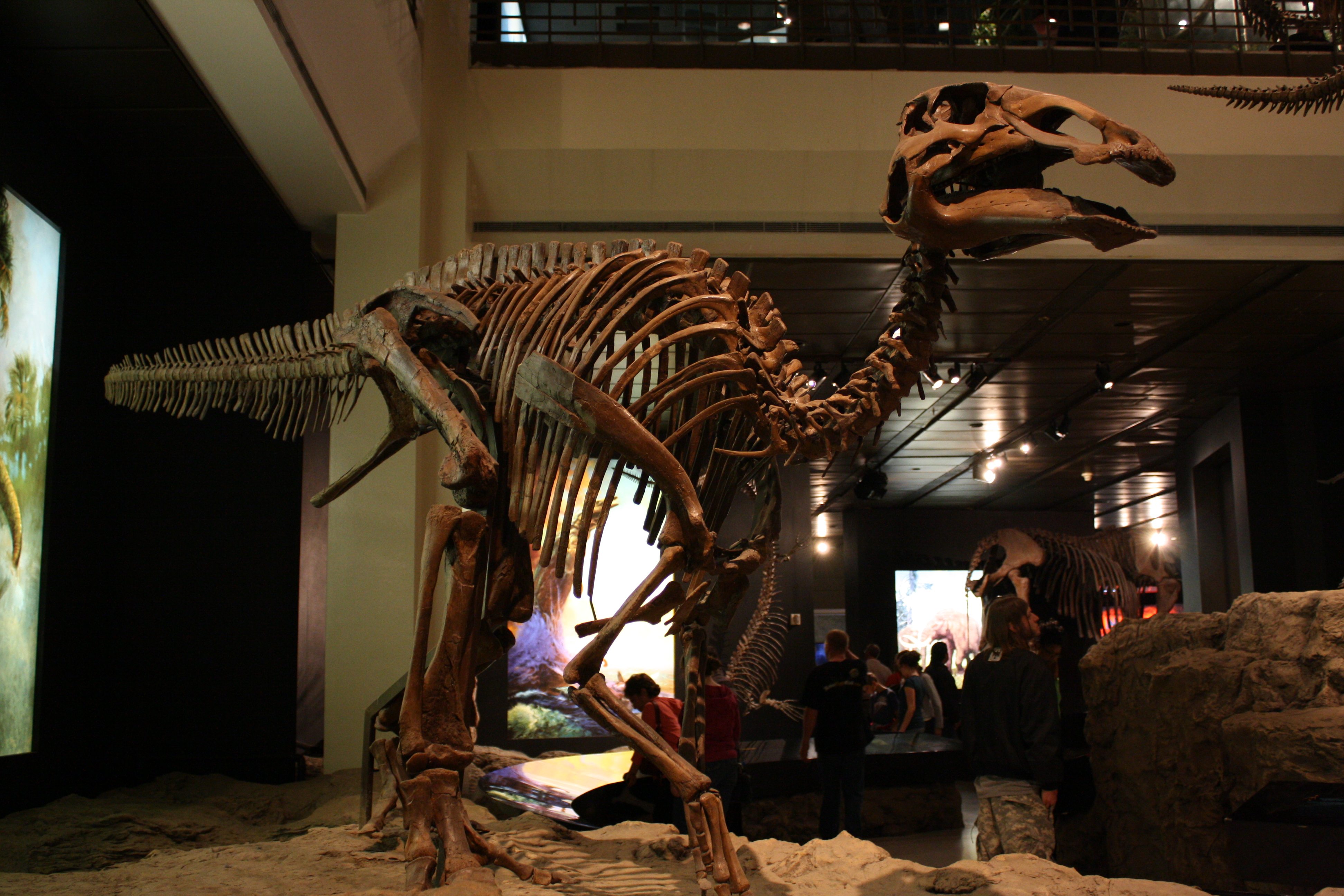 Duck-billed dinosaur or hadrosaur Edmontosaurus annectens (Cretaceous, Hell Creek Formation, Faith, South Dakota) Hadrosaurus, or duck-billed dinosaurs, such as Edmontosaurus were among the most abundant of Late Cretaceous dinosaurs. Edmontosaurus fossils have been found in sedimentary formations of the Western Interior of North America including Alberta, Saskatchewon, North and South Dakota, Wyoming, Colorado and Montana. These animals probably lived in herds on the eastern flanks of the Cordilleran Mountains, an ancient mountain located approximately where the Rockies are today, and west of the Late Cretaceous Interior Seaway which extended from the Arctic to the Gulf of Mexico. Duck-billed dinosaurs were peacable herbivores whose natural enemies probably included the giant predator Tyrannosourius rex. Wikipedia Loves Art at the Houston Museum of Natural Science This photo of item # [1] at the Houston Museum of Natural Science was contributed under the team name "The_Wookies" as part of the Wikipedia Loves Art project in February 2009. Houston Museum of Natural Science The original photograph on Flickr was taken by andytang20—please add a comment to the original Flickr page whenever a use has been made on Wikipedia or another project. Project galleries on Flickr: this institution, this team